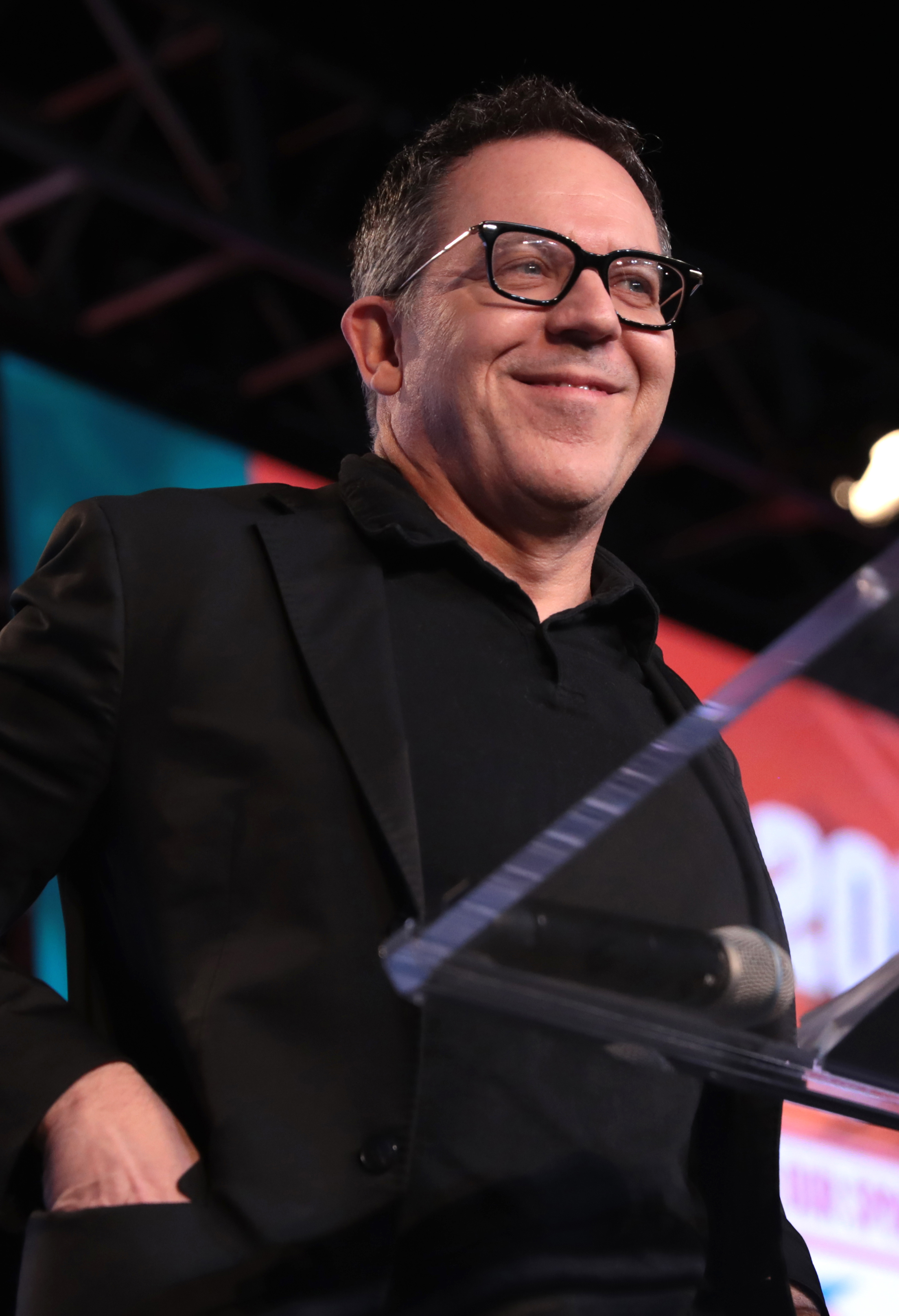 Greg Gutfeld speaking at an event in West Palm Beach, Florida.